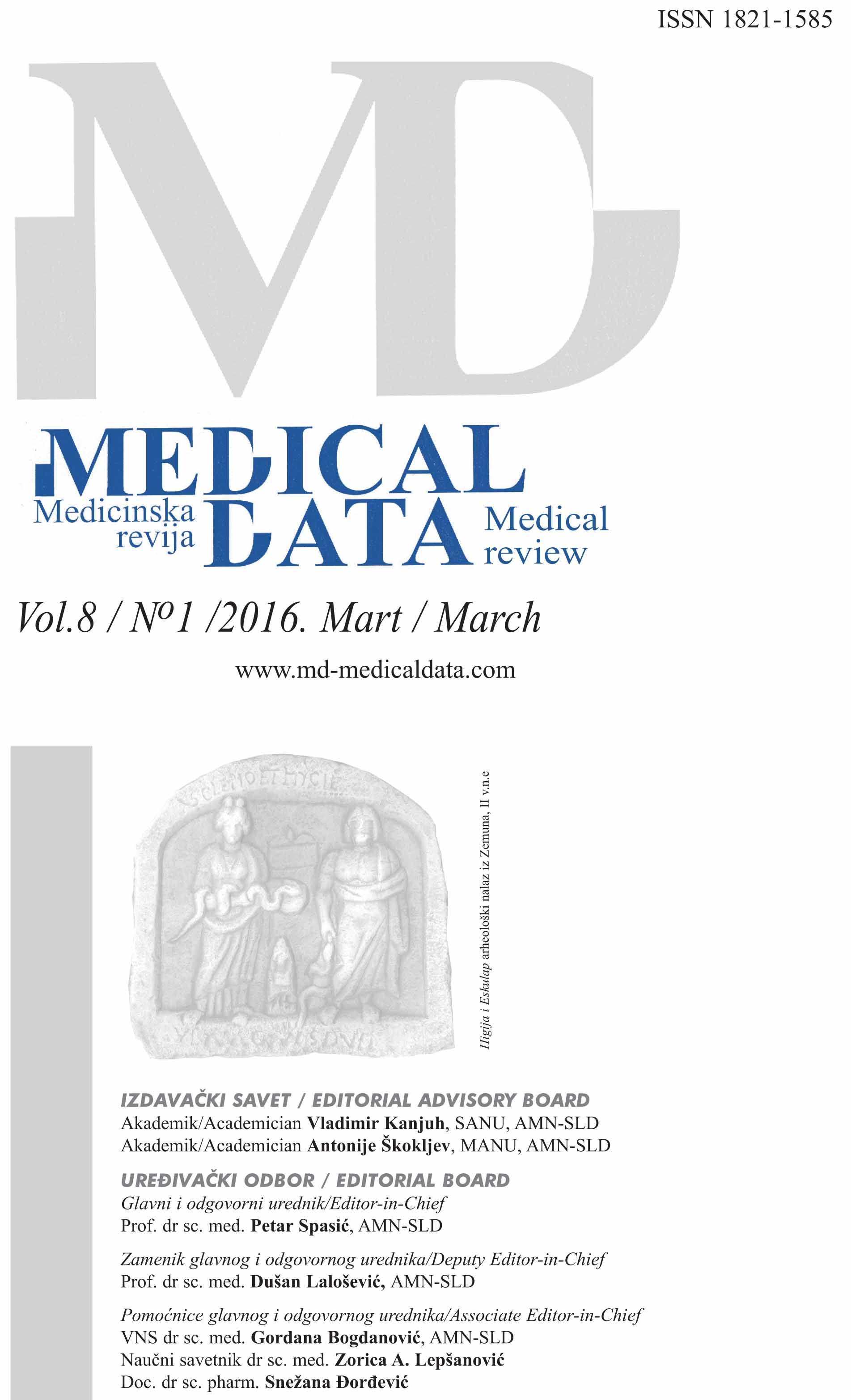 Impressum - 1. page of Serbian scientific journal Medical Data